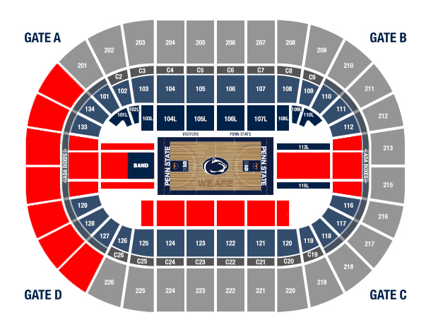 The Legion of Blue typically encompasses the red areas in this Bryce Jordan Center seating chart.